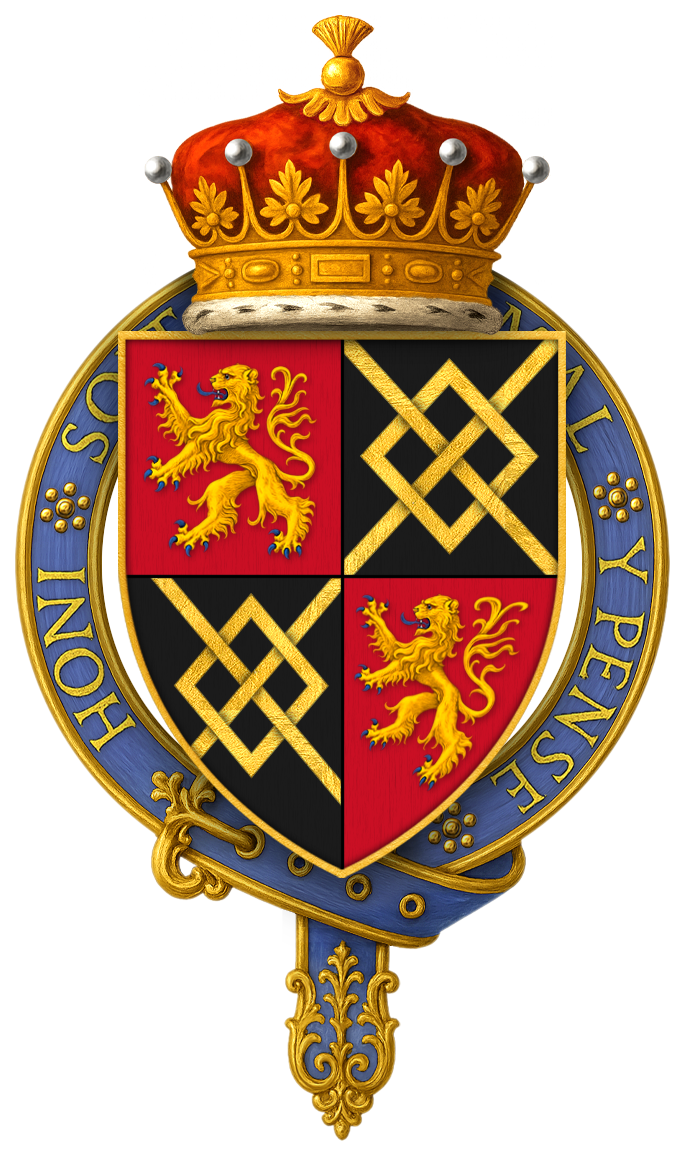 Quartered arms of Sir John FitzAlan, 14th Earl of Arundel, KG BURKE, Sir Bernard, The General Armory of England, Scotland, Ireland, and Wales: Comprising a Registry of Armorial Bearings from the Earliest to the Present Time, London: Harrison & sons, 1884. “Fitz-Alan (Earl of Arundel; John, twelth Earl, 1415-21). Arms same as the tenth earl [gu. a lion rampant or], quartering Maltravers, sa. a fret or.”